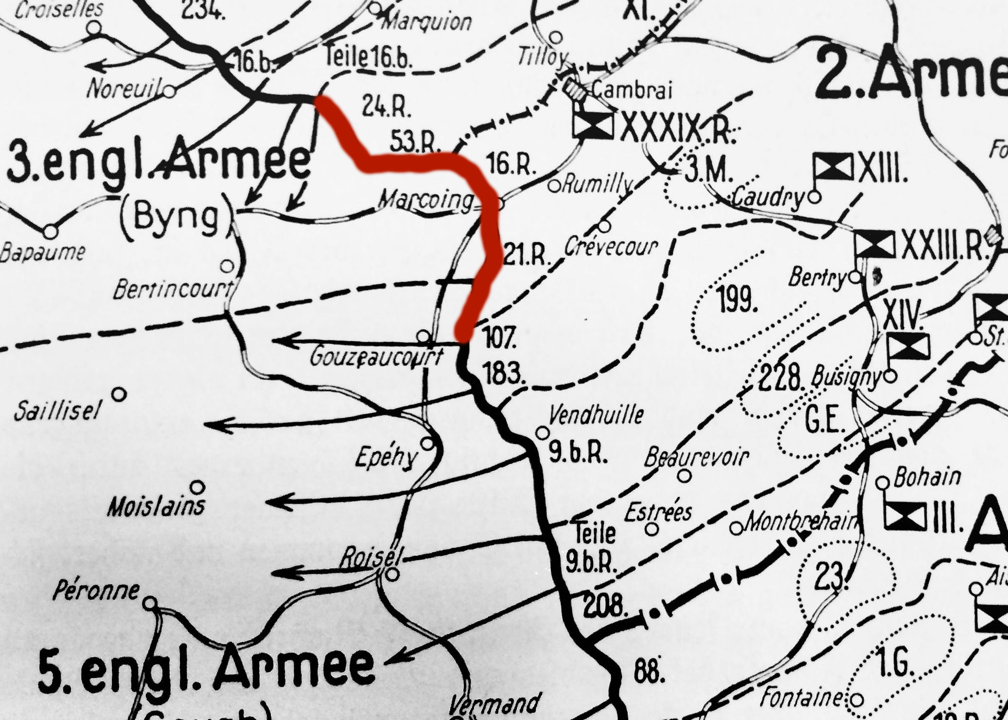 Map of the plan for the Michael attack of March 1919. The intent was to encircle the British V Corps by breaking though on either side of the front marked in red.